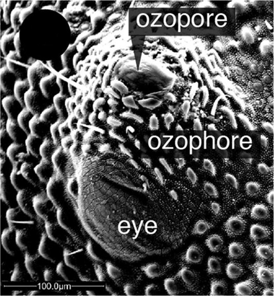 Pettalus: SEM magnification of the ozophore showing the lateral eye (bottom) and dorsal ozopore (top).